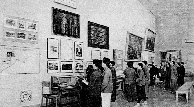 Korean Revolution Museum interior circa 1960